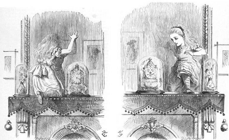 Alice stepping through the looking-glass